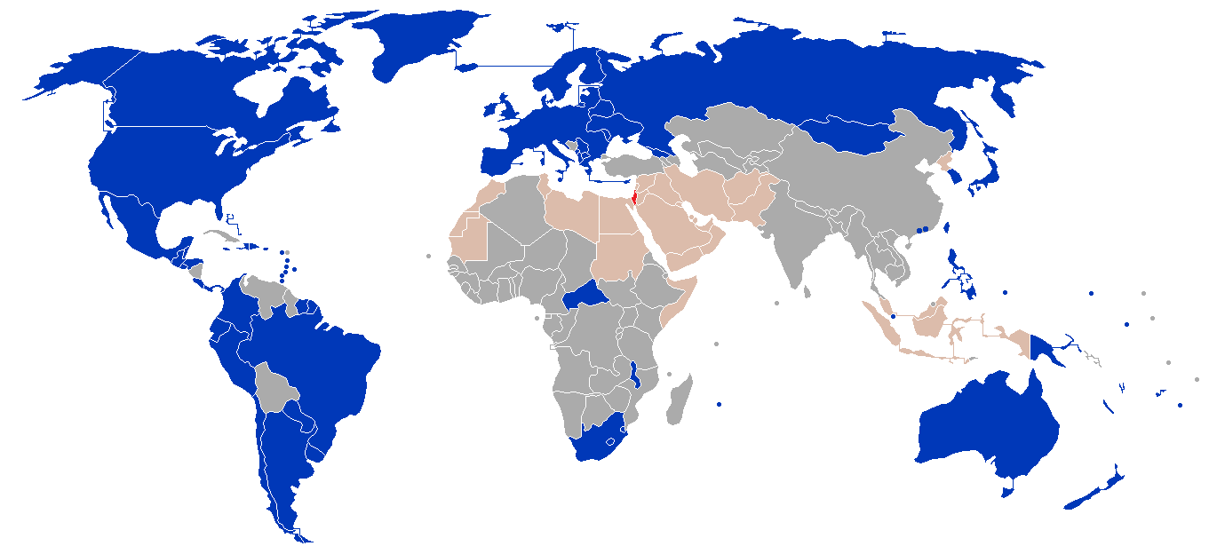 Visa policy of Israel